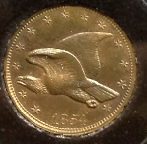 Unadopted pattern for Flying Eagle cent